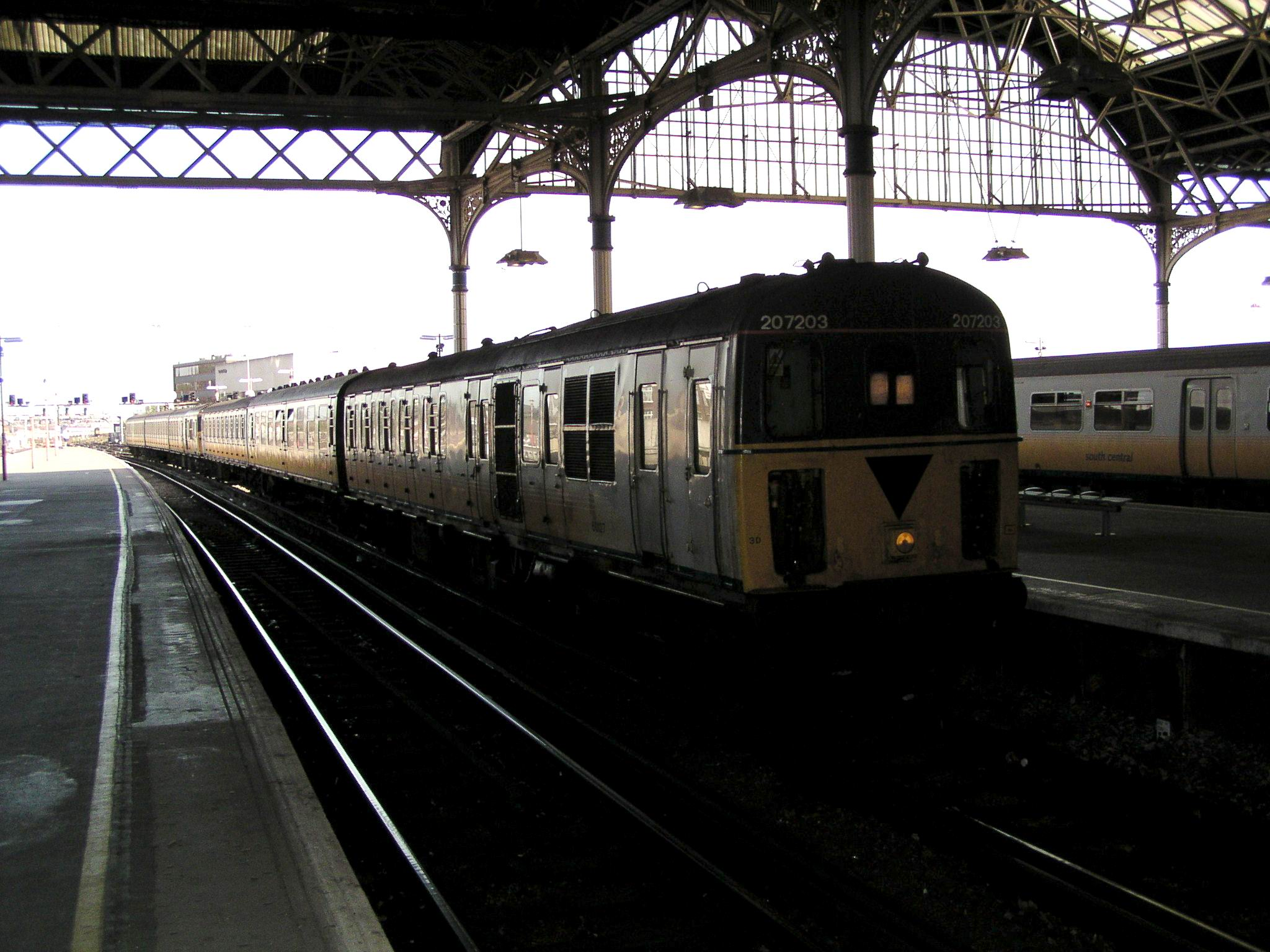 BR Class 207, no. 207203 arriving at London Bridge on 15th August 2003, before forming a service to Uckfield. This unit has since been withdrawn from traffic by Southern due to the arrival of new Class 171 Turbostar units.